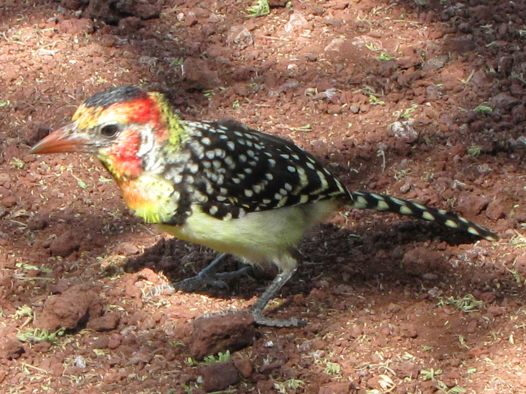 Red-and-yellow Barbet (Trachyphonus erythrocephalus), picture taken in Lake Manyara Park, Tanzania